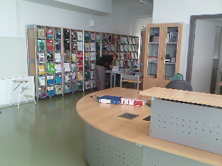 Izposojevalni pult